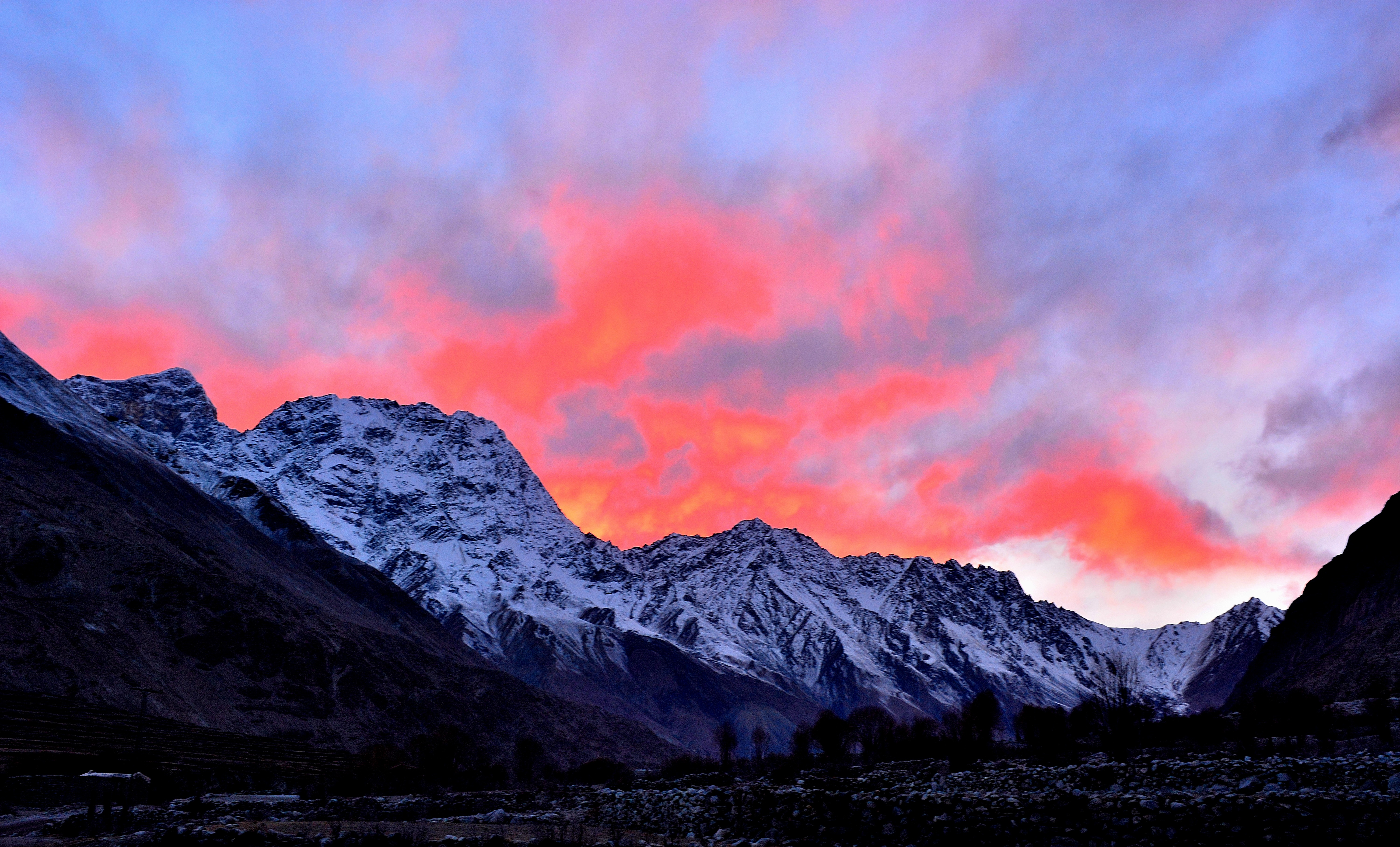 An evening at Goma village, Ghanche District, Gilgit-Baltistan in Pakistan was taken just before the start of winter season.